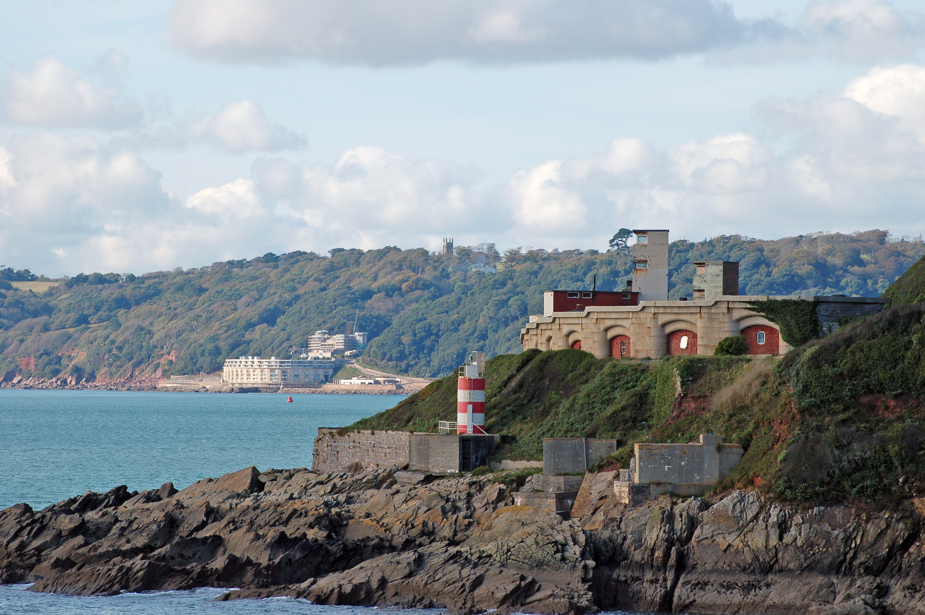 Two of the major forts built in the 1860s to protect Plymouth Sound from enemy ships: Fort Bovisand, on the Devon side of the Sound, is in the foreground. Fort Picklecombe, on the Cornish side is visible in the distance.